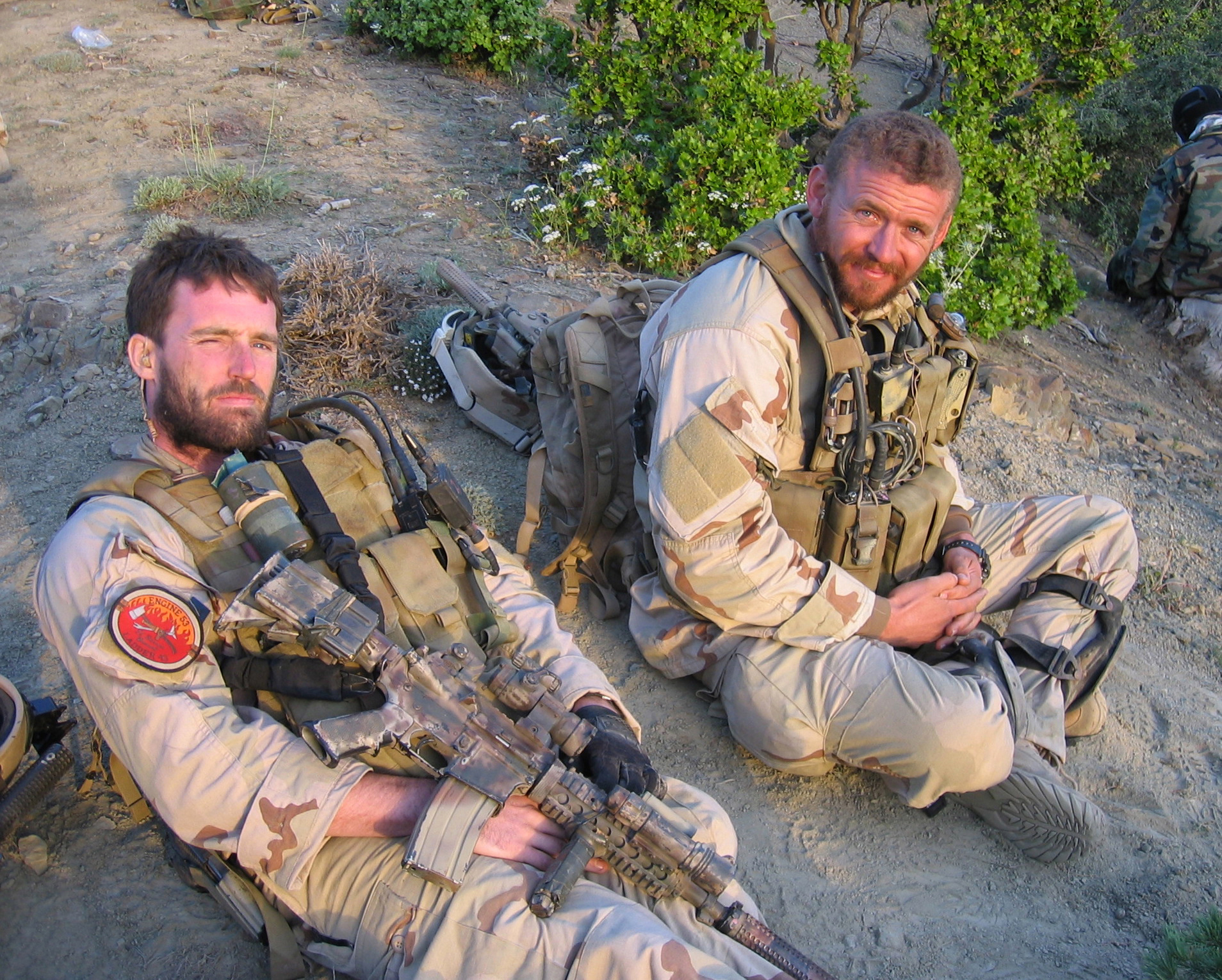 Navy file photo of SEAL Lt. Michael P. Murphy, from Patchogue, N.Y., and Sonar Technician (Surface) 2nd Class Matthew G. Axelson, of Cupertino, Calif., taken in Afghanistan. Both were assigned to SEAL Delivery Vehicle Team 1, Pearl Harbor, Hawaii. Murphy and Axelson were killed by enemy forces during a reconnaissance mission, Operation Red Wing, June 28, 2005. They were part of a four-man team tasked with finding a key Taliban leader in the mountainous terrain near Asadabad, Afghanistan, when they came under fire from a much larger enemy force with superior tactical position